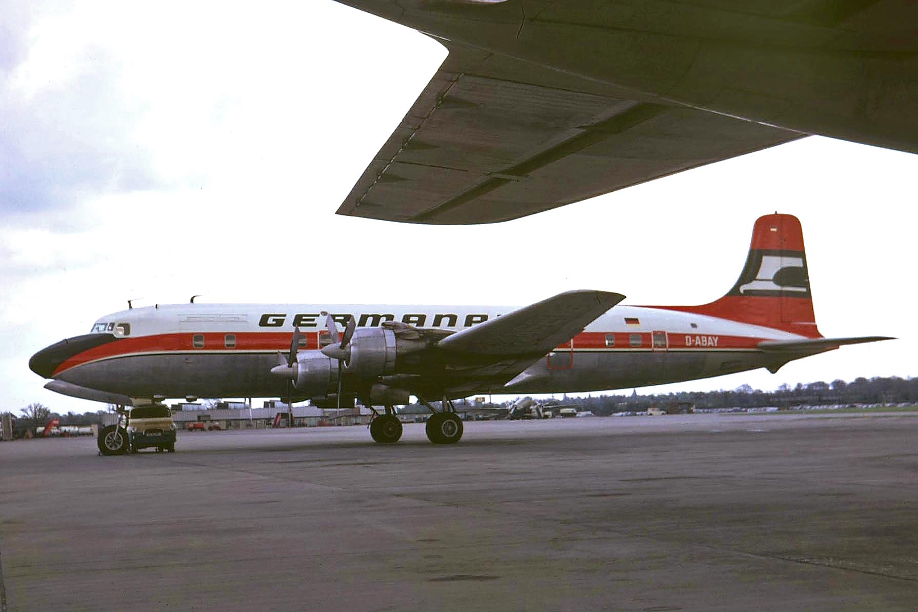 A Germanair DC-6B at London-Gatwick (LGW) taken from under the tail of a Caledonian Britannia.